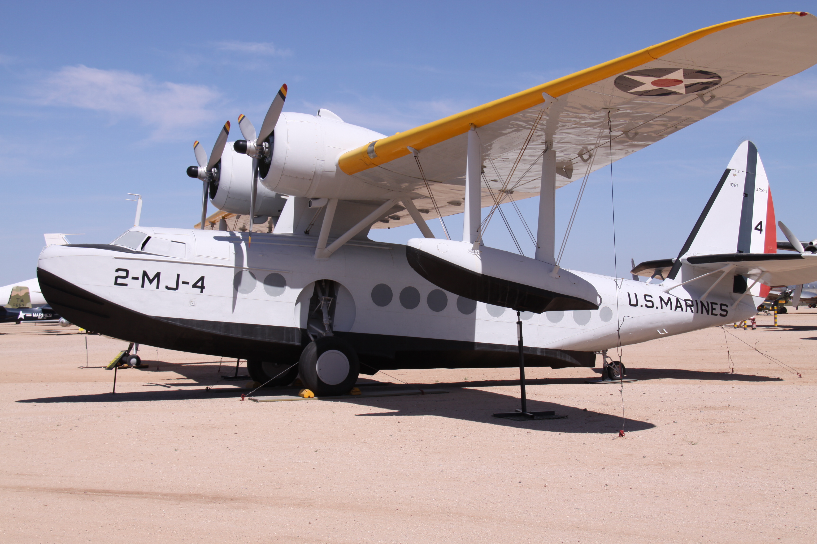 At Pima Air & Space Museum